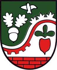 Coat of Arms of Lerchenberg